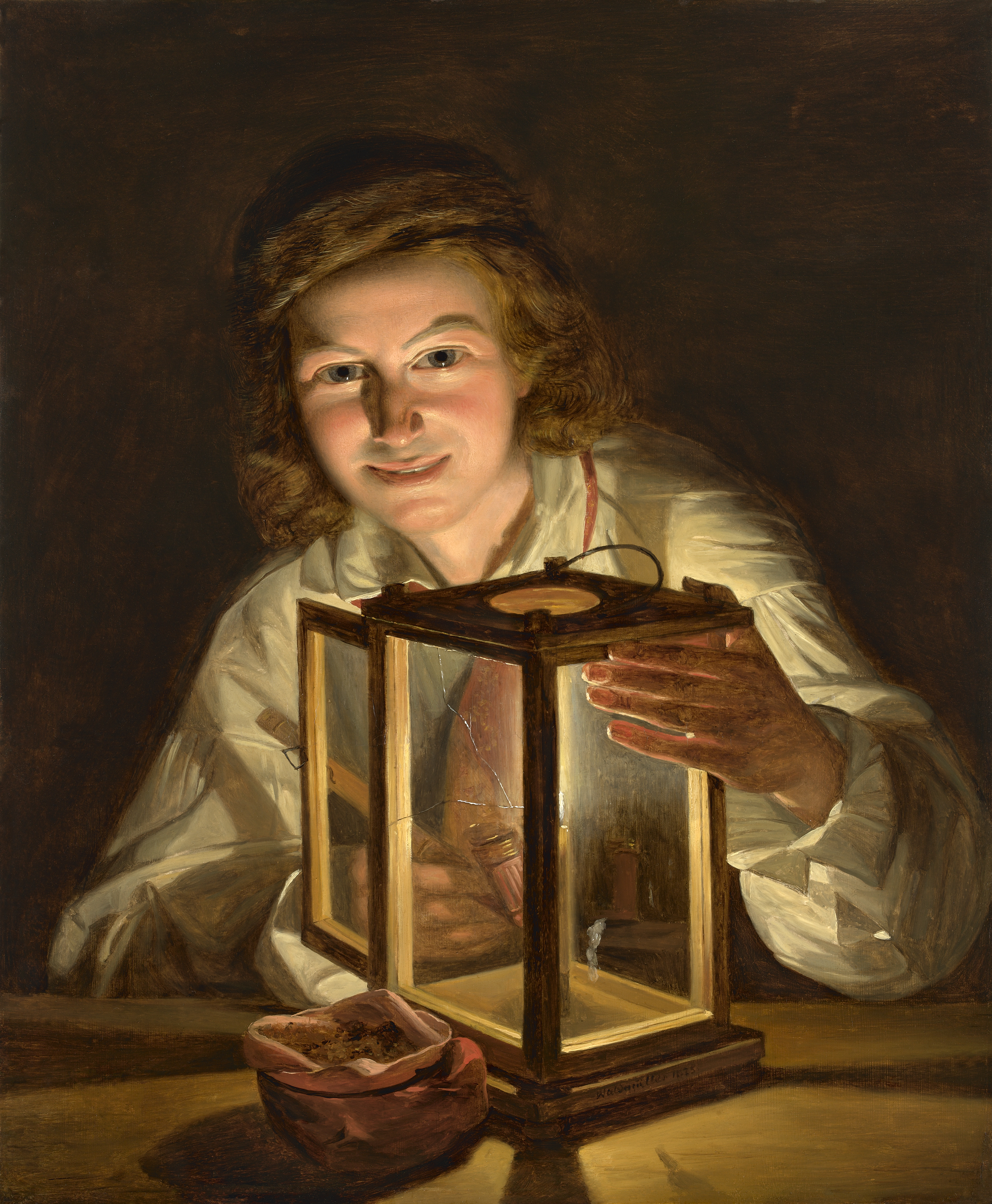 A rediscovered self-portrait by Ferdinand Georg Waldmüller